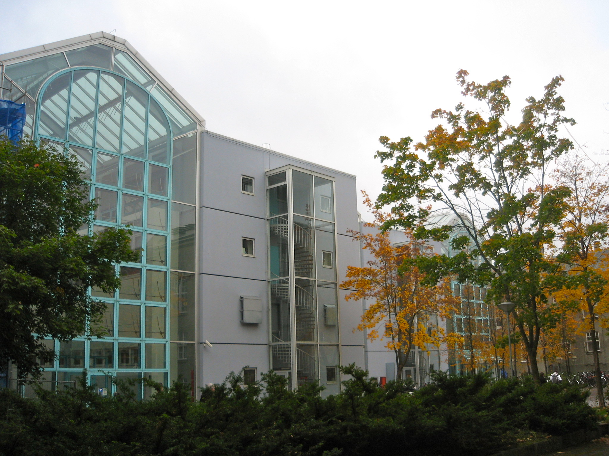 Elektro E. Building at Campus NTNU Gløshaugen, Trondheim. Erected 1986. Architect: Per Knudsen.